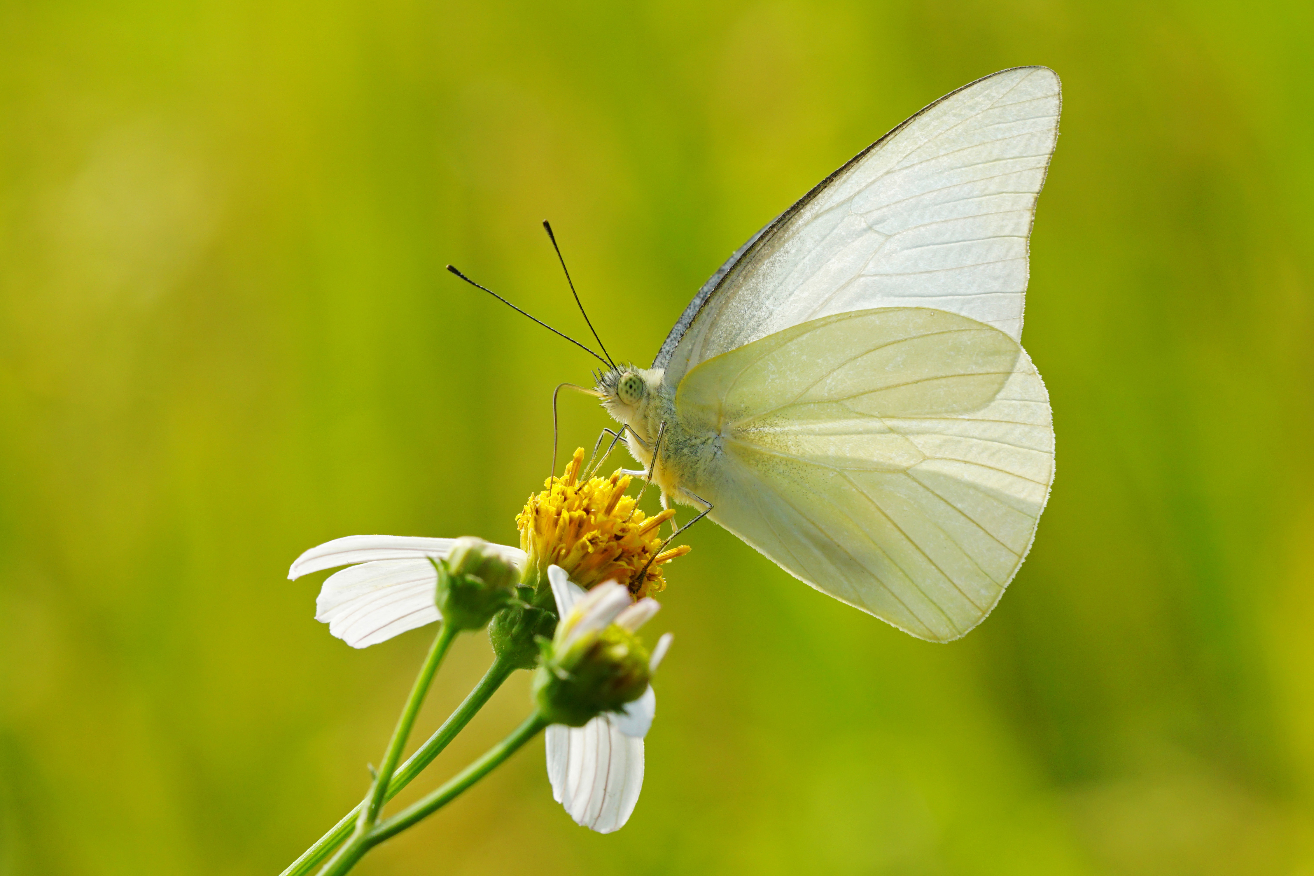 Common albatross (Appias albina), male.